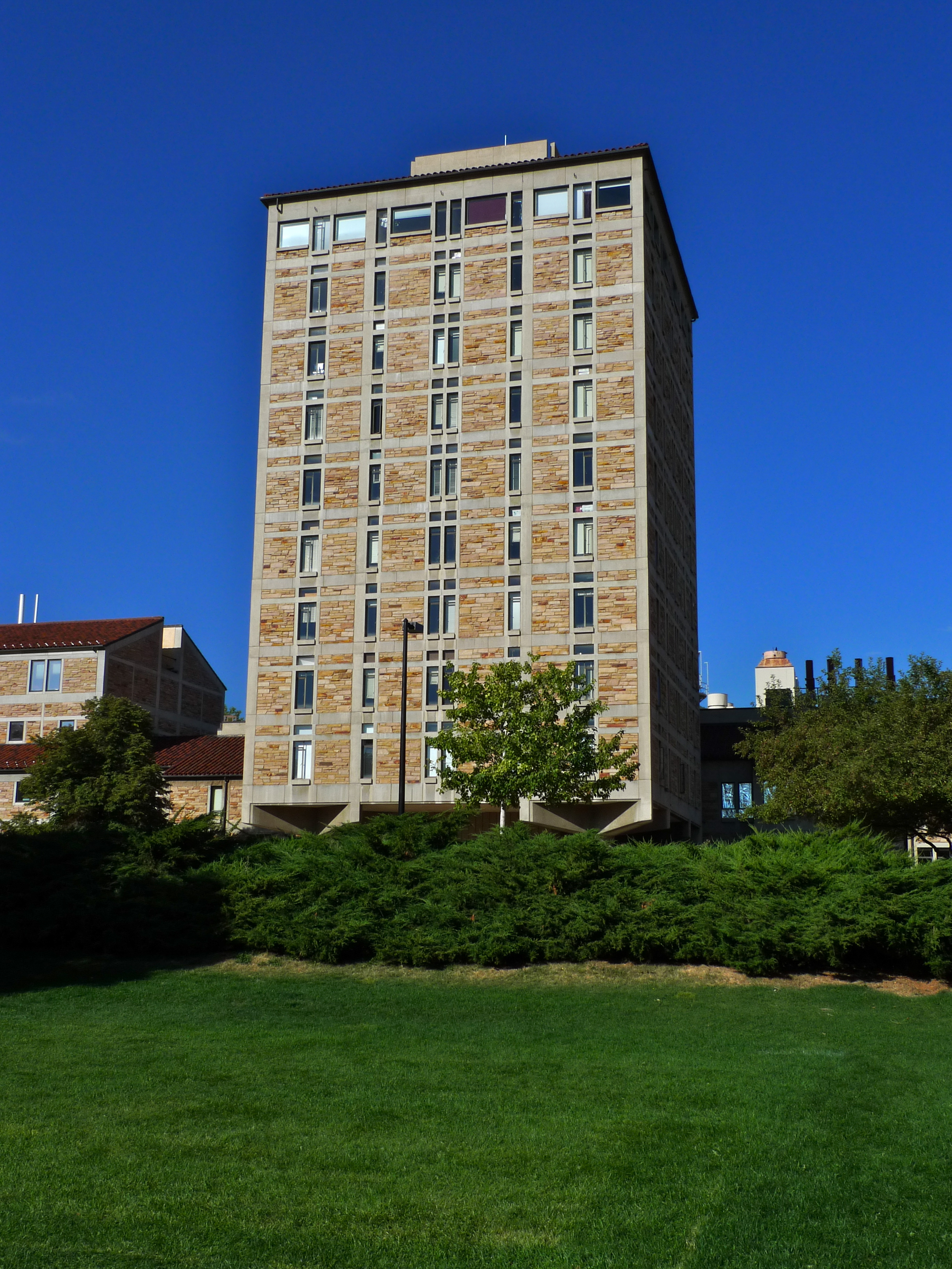 JILA, a joint research institute of the University of Colorado and NIST. It is located on the University of Colorado campus (near the physics building) in Boulder, Colorado.